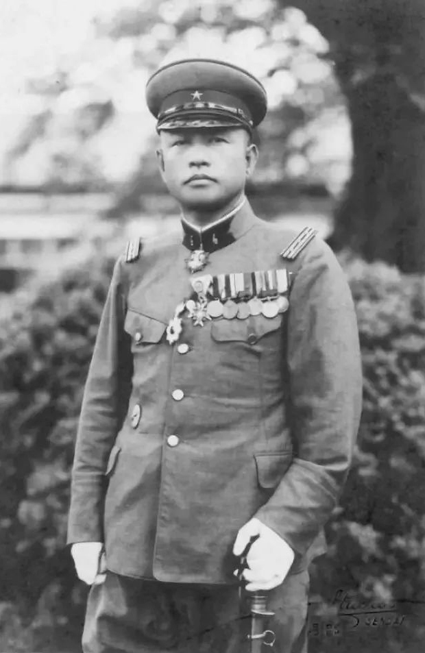 Colonel Kanji Ishiwara in 1934. At the time he was the commander of the 4th Infantry Regiment in Sendai. Kanji Ishihara was the mastermind of the Manchurian Incident, but he was not a war criminal in the Tokyo trial because of his strong opposition in the "Roh Mizobashi (check translation)" case.